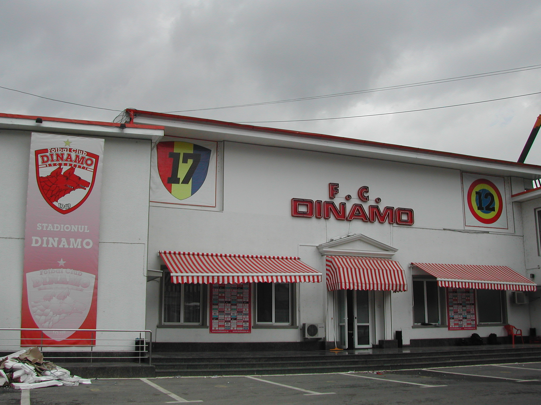 This picture shows a building in front of the Dinamo stadium in Bucharest, Romania.